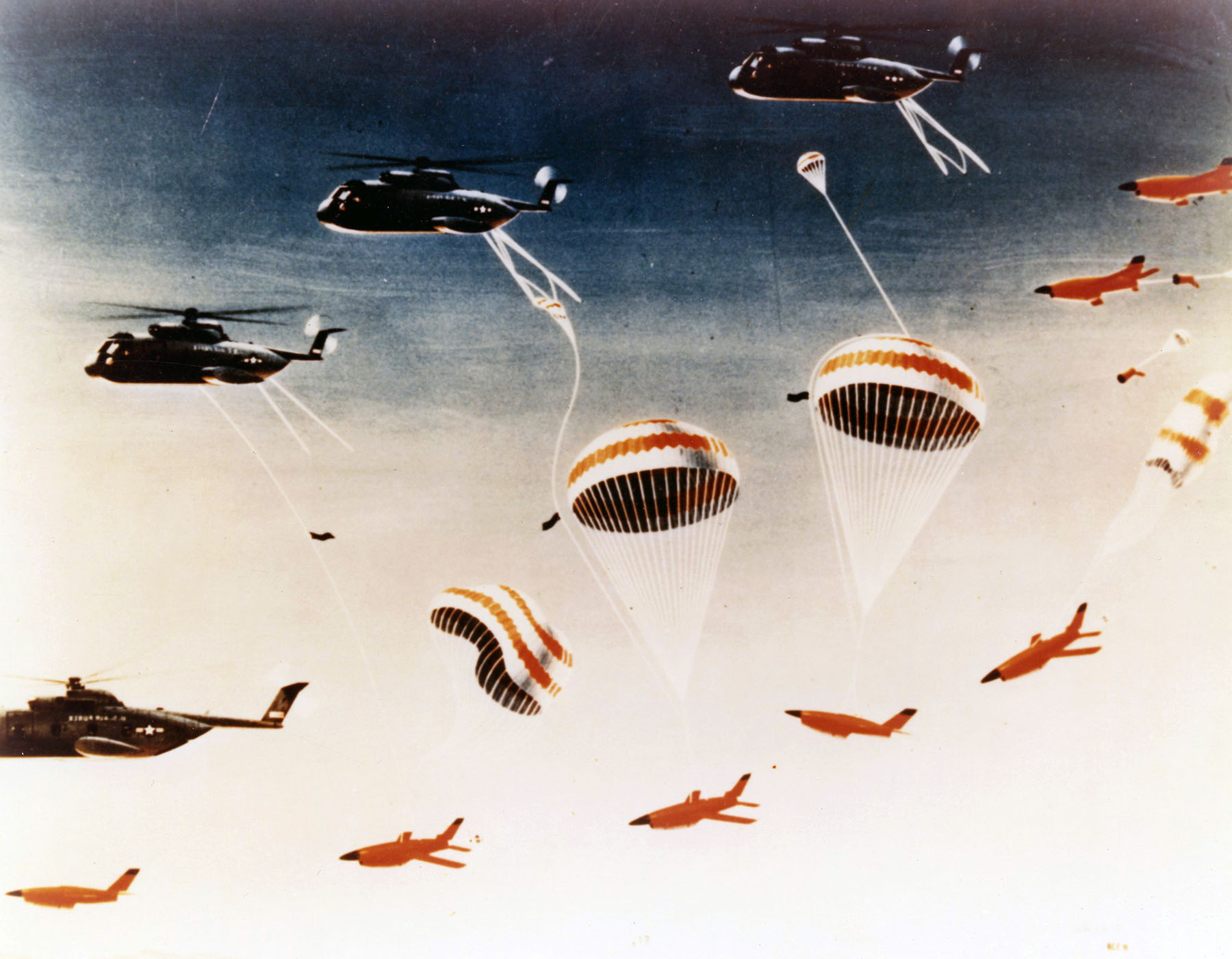 Unlike later RPAs, the Firebee could not take off or land on its own. The Firebee was air-launched and controlled from a DC-130 director aircraft. After flying its mission, the AQM-34 was directed to a safe recovery area where its parachute was deployed. Then it would typically be retrieved with the Mid-Air Recovery System (or MARS). (U.S. Air Force photo)